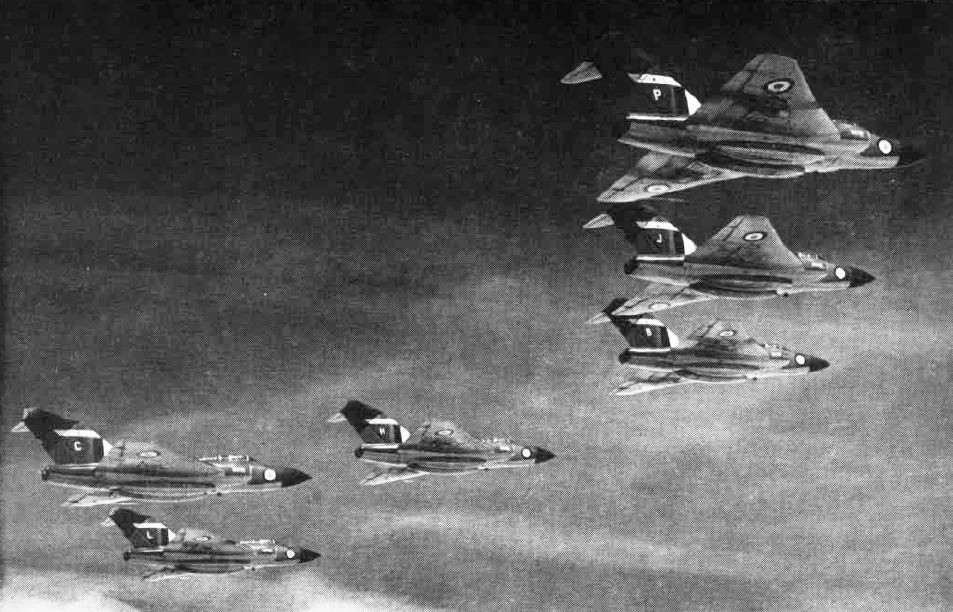 Six Gloster Javelin FAW.7 of No. 64 Squadron, Royal Air Force, in 1959. The photo was taken, because two captains of the United States Marine Corps, B.M. Adrian and Dirk Bierhaalder, served as radar operators with 64 Squadron at RAF Duxford, Cambridgeshire (UK).